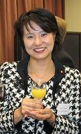 Naomi Tokashiki